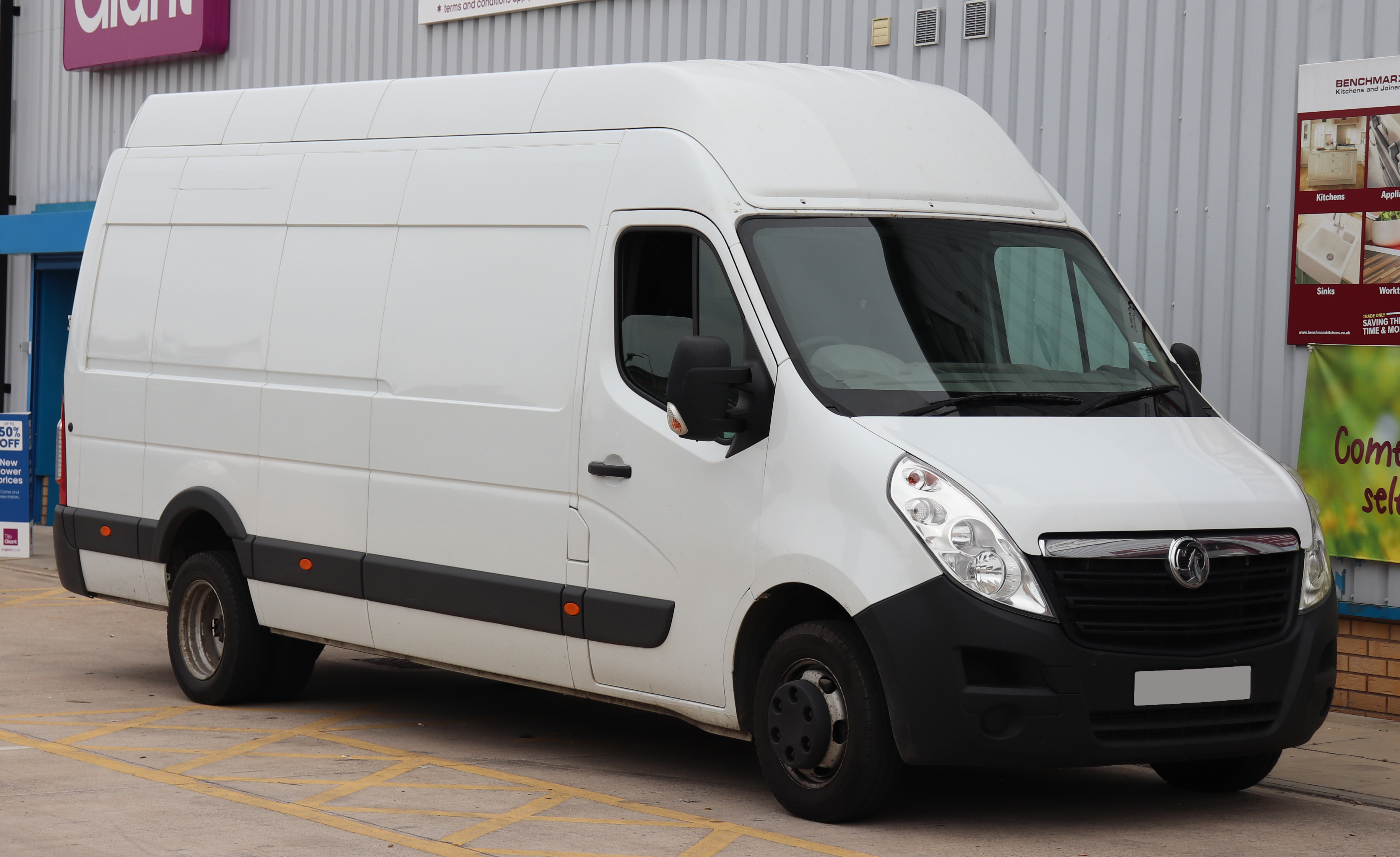 2015 Vauxhall Movano R3500 L4H3 CDTi 2.3 Front Taken in Leamington Spa